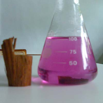 extract of Haematoxylon campechianum